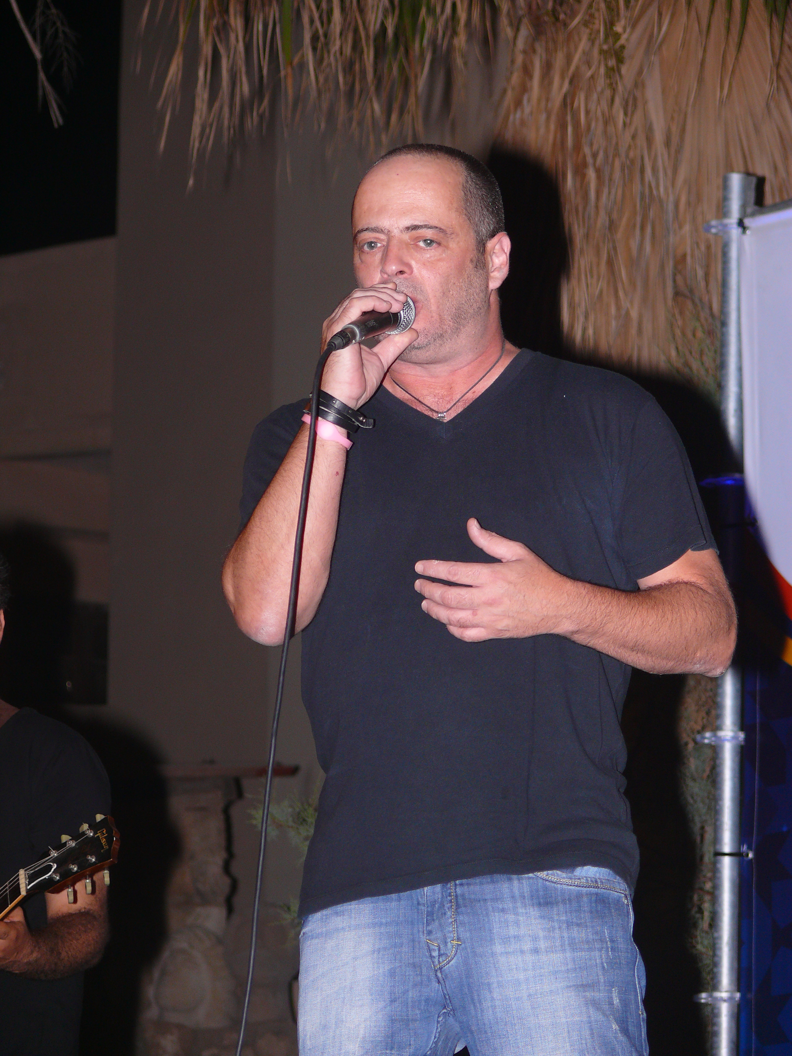 Israeli singer Adam (singer) performs in Old Jaffa (Yafo), Israel